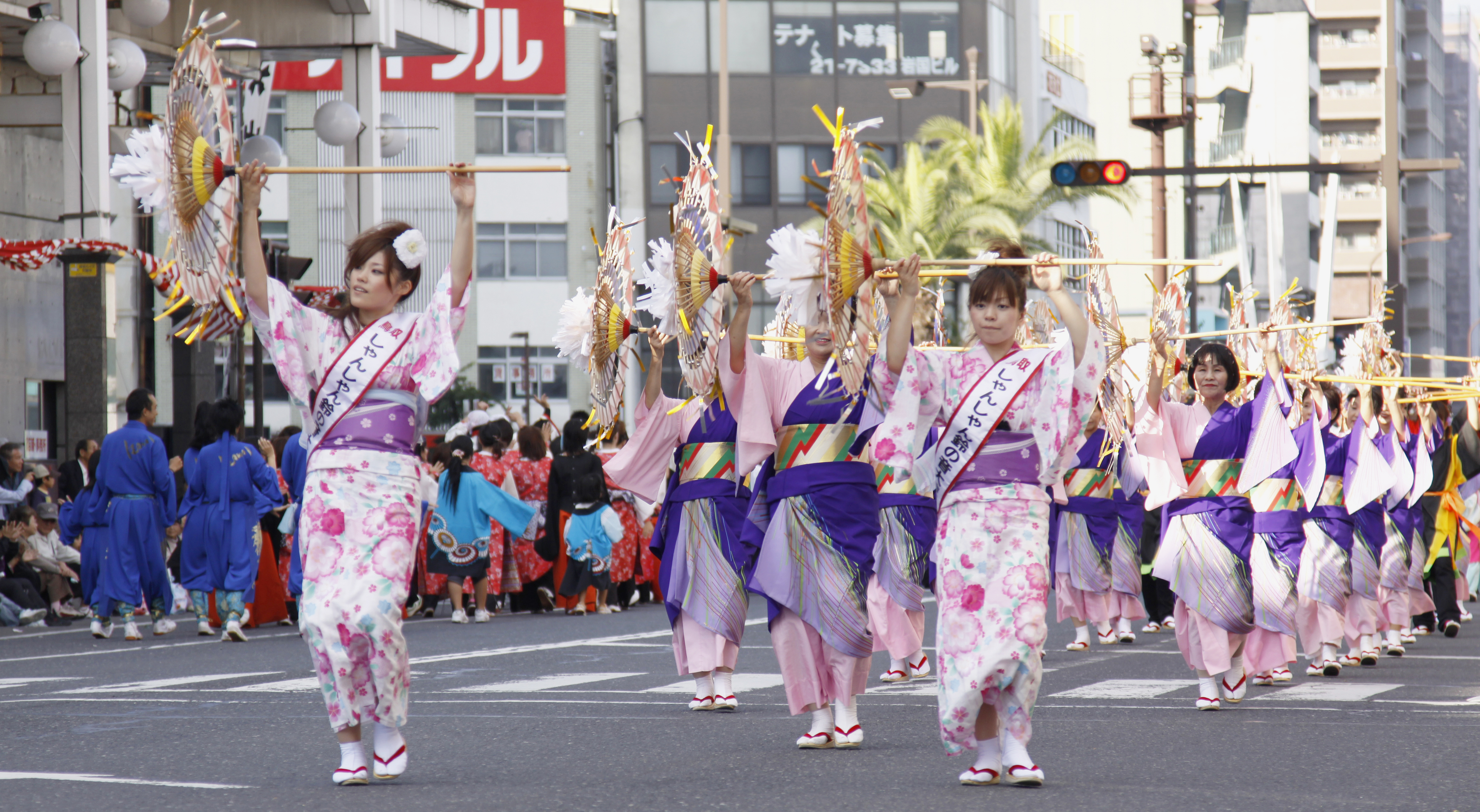 Festival participants parade and dance down the street with decorated umbrellas during the closing parade of the 53rd Annual Iwakuni Festival Sunday. Approximately 97,000 people came out to enjoy the festival hosted by the city of Iwakuni, Iwakuni Chamber of Commerce, and Iwakuni Tourism Association. The all-day festival provided entertainment to the local people in food, games, live musical performances and a small bazaar.